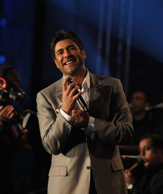 Wael Kfoury in Al Bustan Rotana Hotel, Dubai